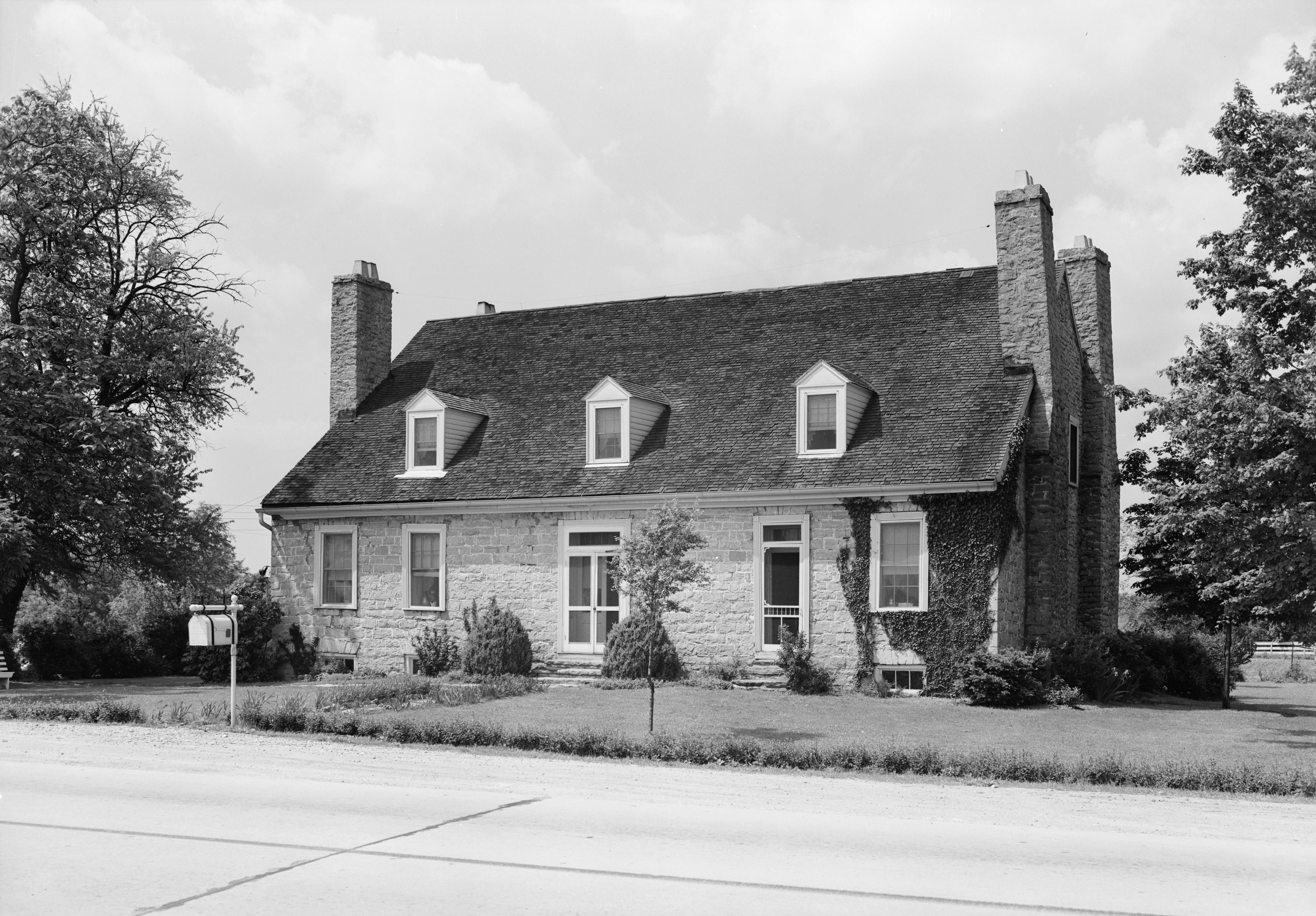 Front of the Old Stone Inn, located along U.S. Route 60 east of Simpsonville in Shelby County, Kentucky, United States. Built in 1816, it is listed on the National Register of Historic Places.